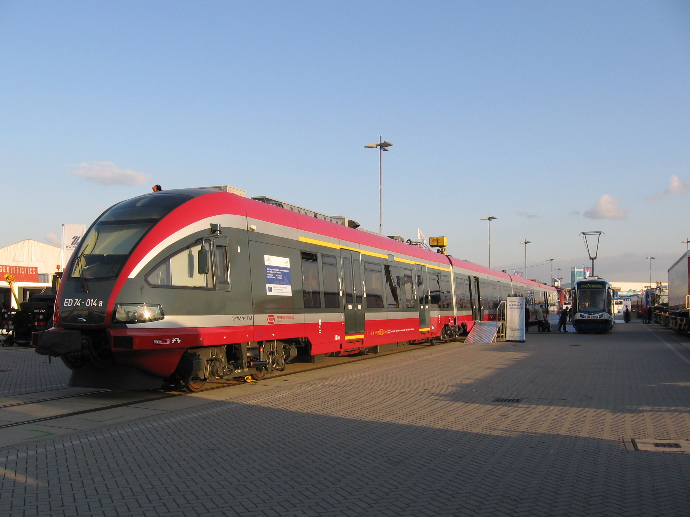 ED74 from PESA production exhibited at Innotrans Berlin 2008.